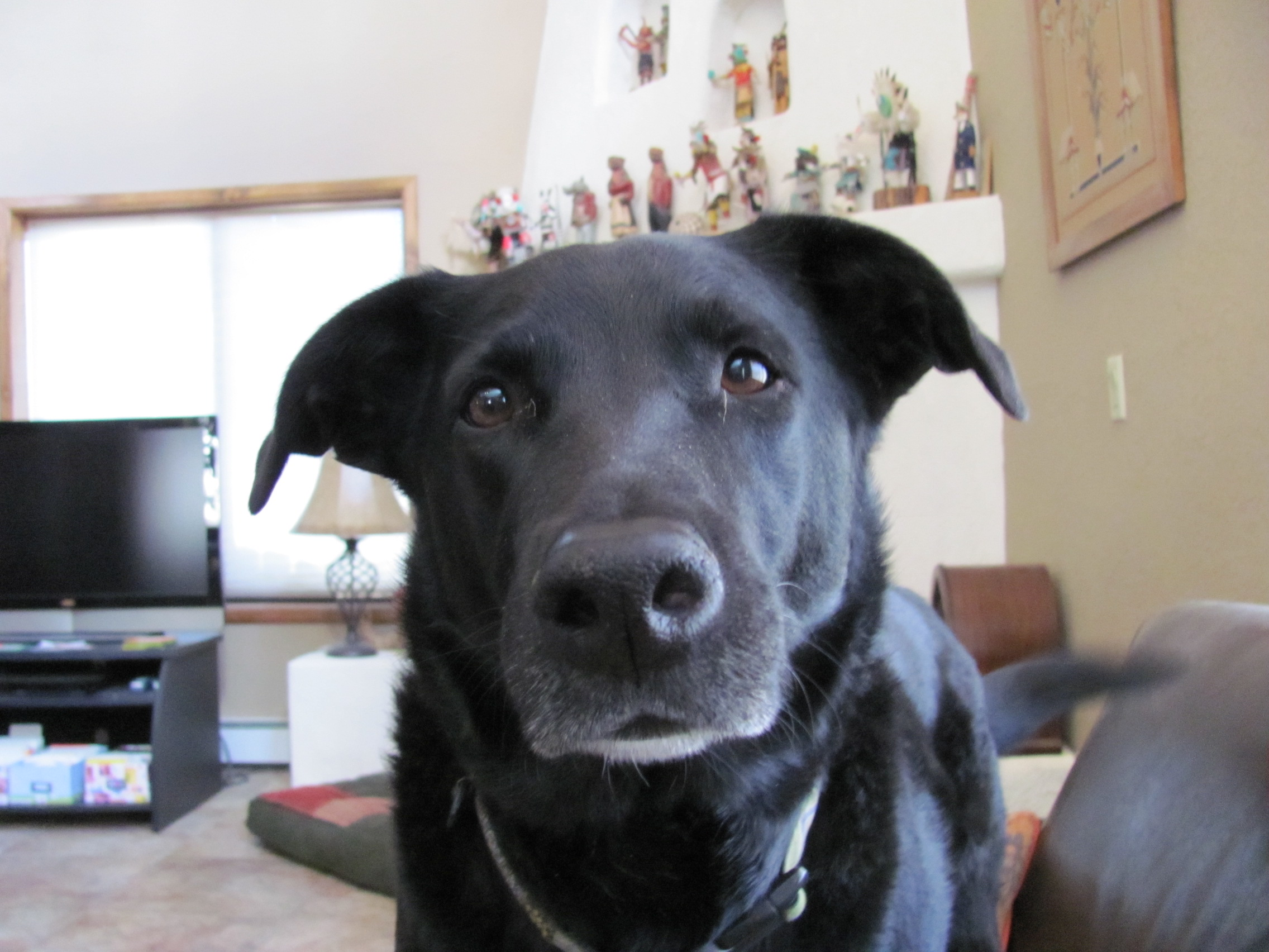 Boonie the dog, Albuquerque New Mexico - 2013